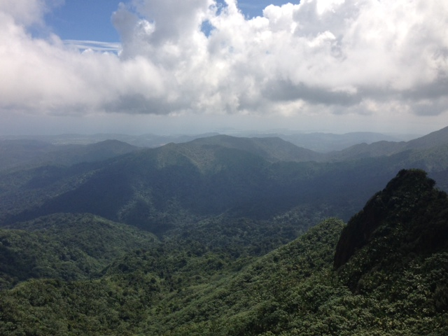 View towards Pico Los Picachos from the top of Pico El Yunque. The visibility for local conditions was exceptional for that day.